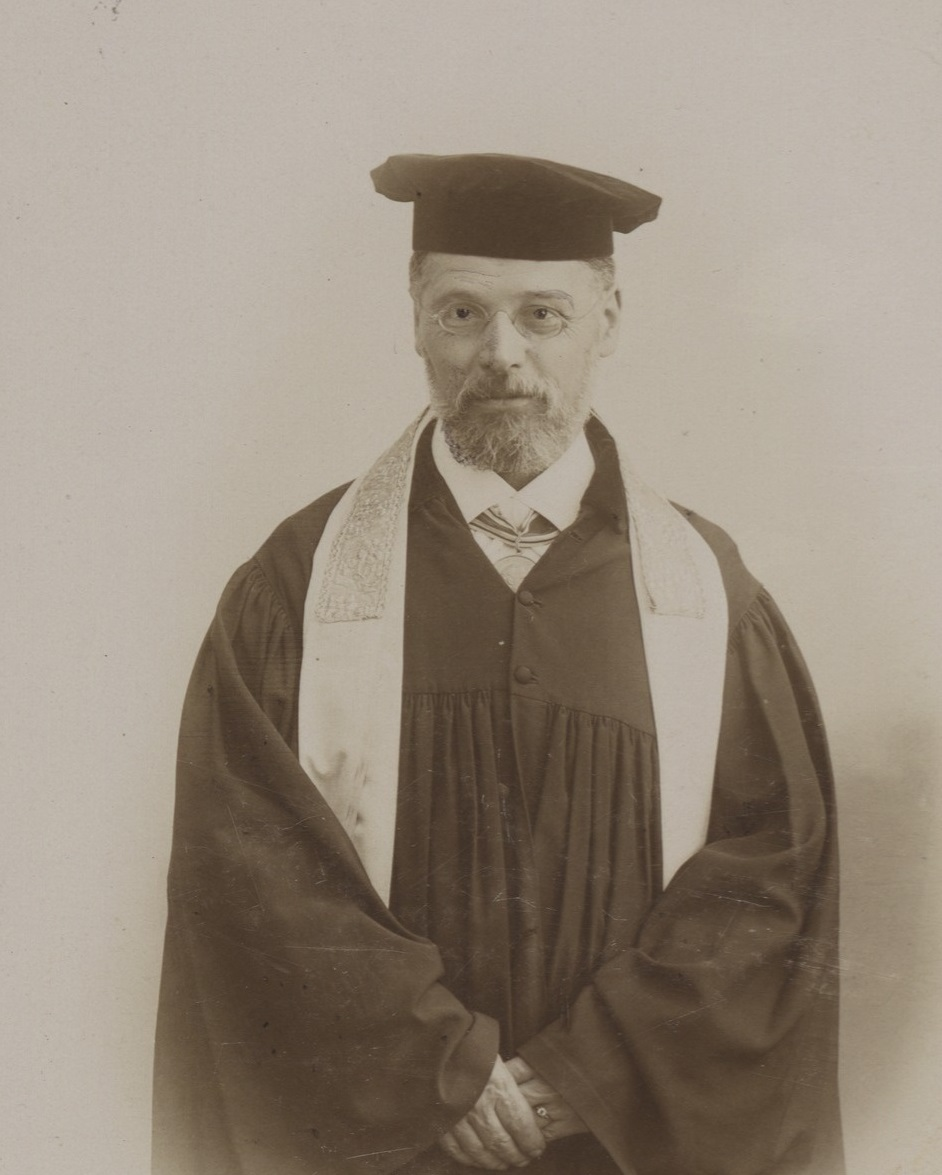 Avraham Erlich